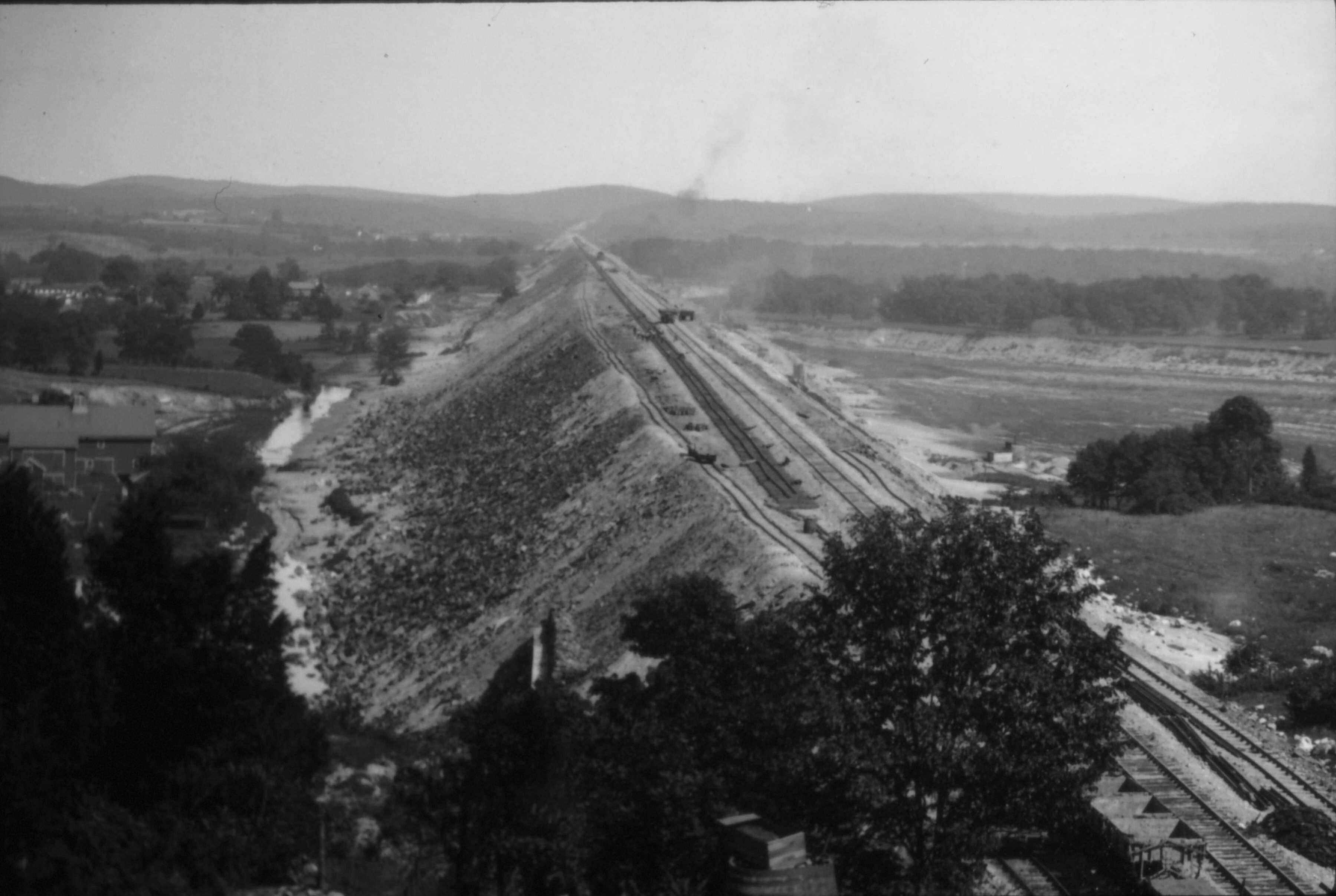 Summer 1911, construction of Cut-Off near Tranquility, NJ.Wally From Columbia (NJ) (talk) 17:17, 22 October 2010 (UTC)